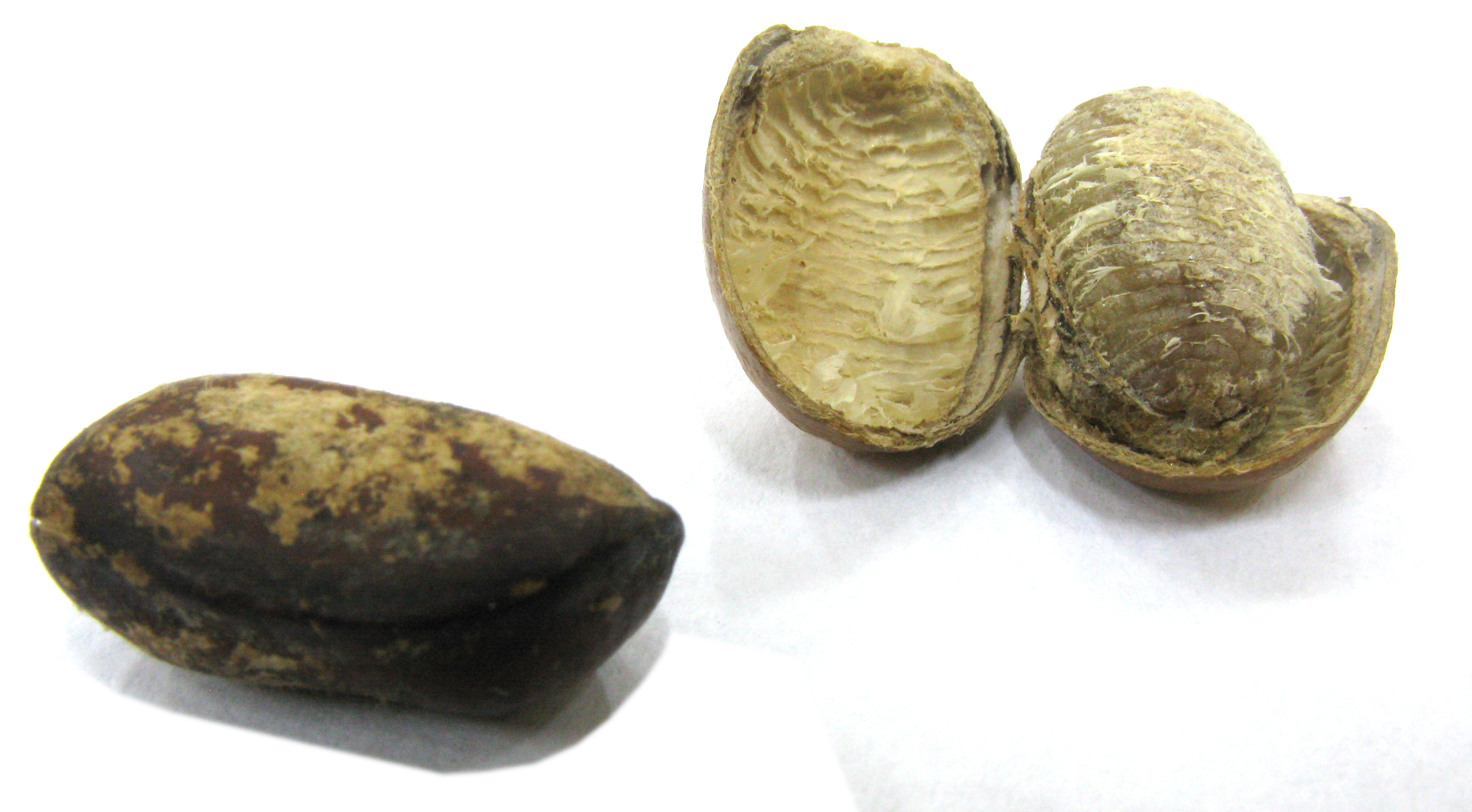 Monodora myristica seeds, one still in shell, one opened.